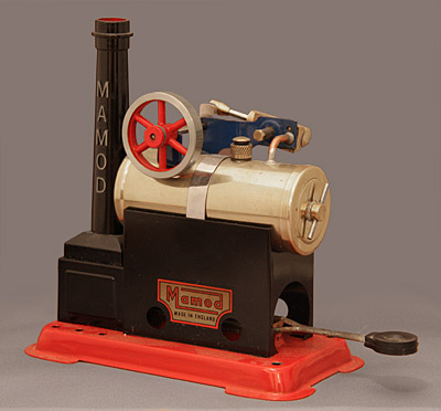 A photograph of a Mamod SP1 from 1979.